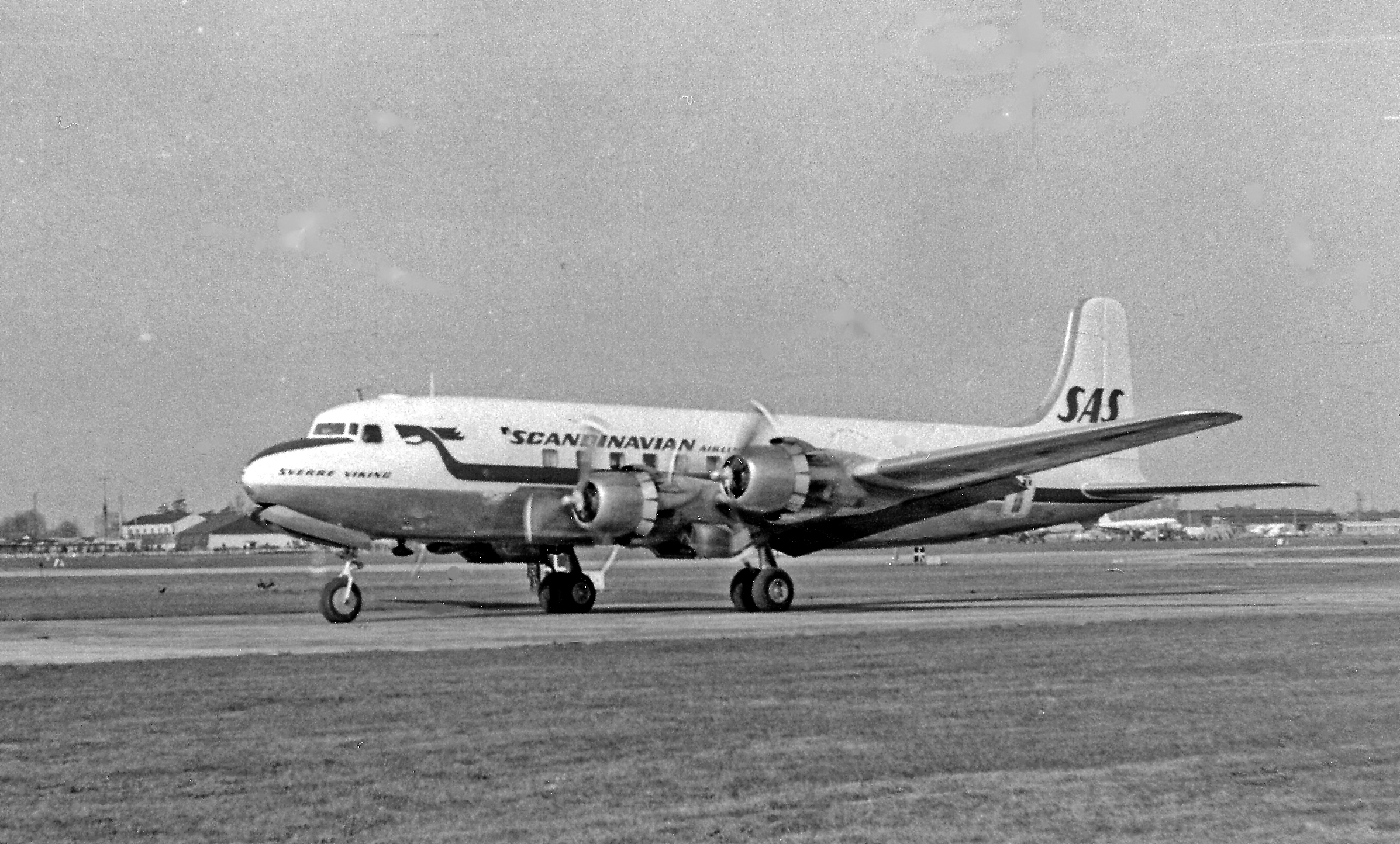 Scandinavian Airways (SAS) taking off from Heathrow in 1955. Back in 1955, you watched from Queen's Building this kind of piston-engined aircraft. This is a Douglas DC-6, employed by SAS in the late 1950s.